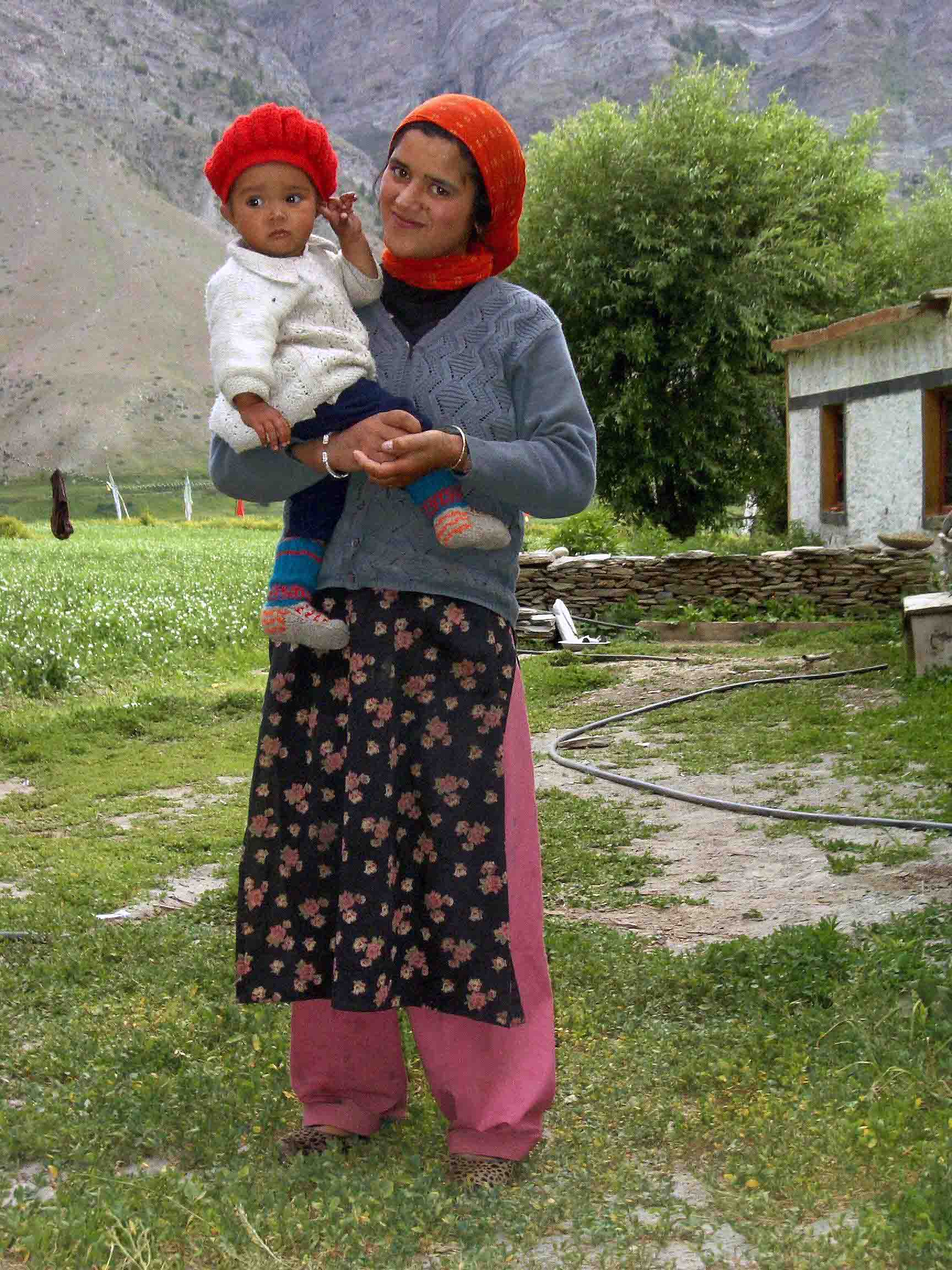 Mother and child in front of home near Gandhla in Lahaul